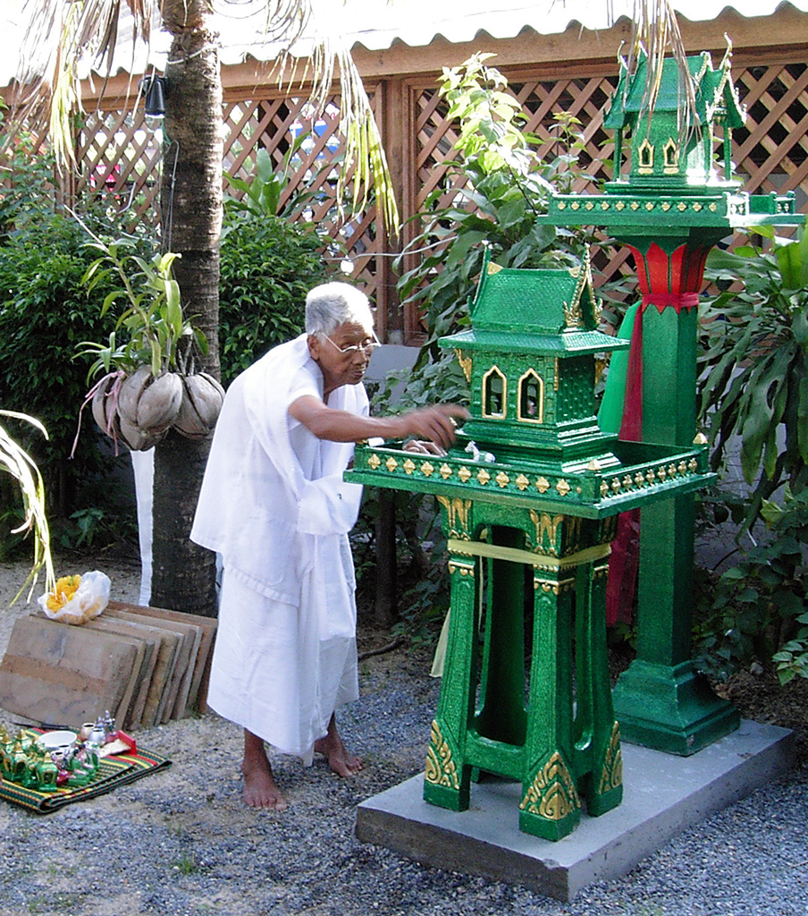 Thai Spirit House initiation ritual by Brahmin or Shaman in a business at Koh Samui. Flowers; food; incense sticks; white cotton string; and fireworks, were effects used in the ceremony, to make the spirits move into their new houses (2006). Small figurs of animals and humans are placed in the hoses and on their platform.